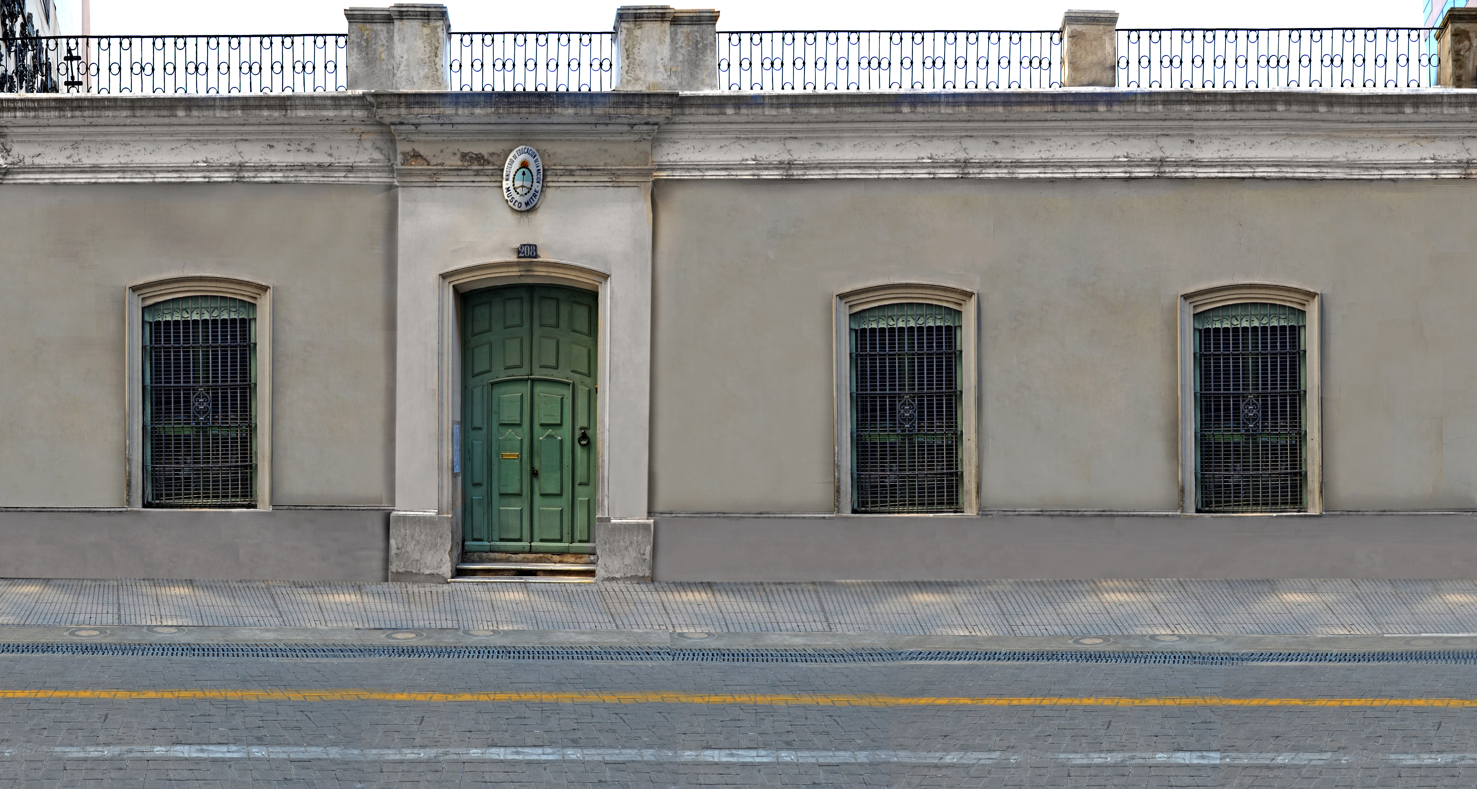 9 de diciembre de 2014.- Museo Mitre, con su fachada limpia.